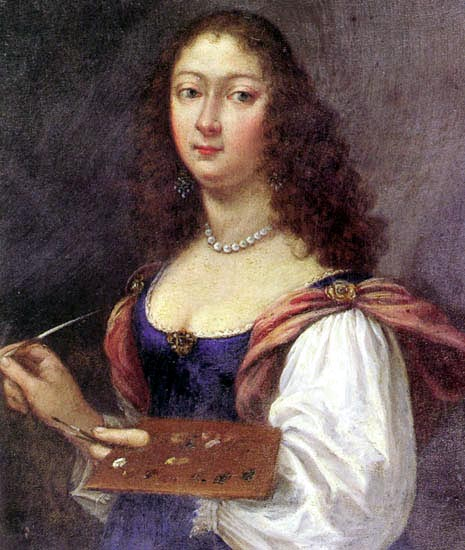 Elisabetta Sirani (1638 - 1665) Italian painter and engraver by age seventeen, Sirani opened her own studio in Bologna early in her career, supported chiefly by private commissions. She was so prodigious an artist that by the time of her death at 27, she had completed approximately 170 paintings, 14 etchings, and a number of drawings. Several stories attest to Sirani's rapid working methods, such as when the Grand Duke Cosimo III de Medici visited her studio in 1664. After he watched her work on a portrait of his uncle Prince Leopold, Cosimo ordered a Madonna for himself, which Sirani allegedly executed quickly so that it could dry and be taken home with him!